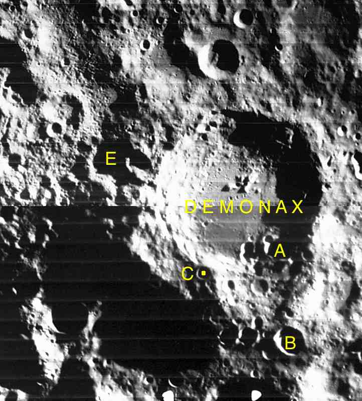 Combination of Lunar orbiter IV images IV-070-H2 and IV-058-H1 used for the presentation